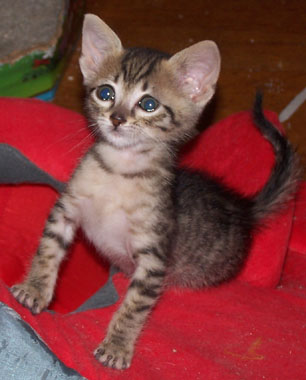 Egyptian Mau kitten with FCKS